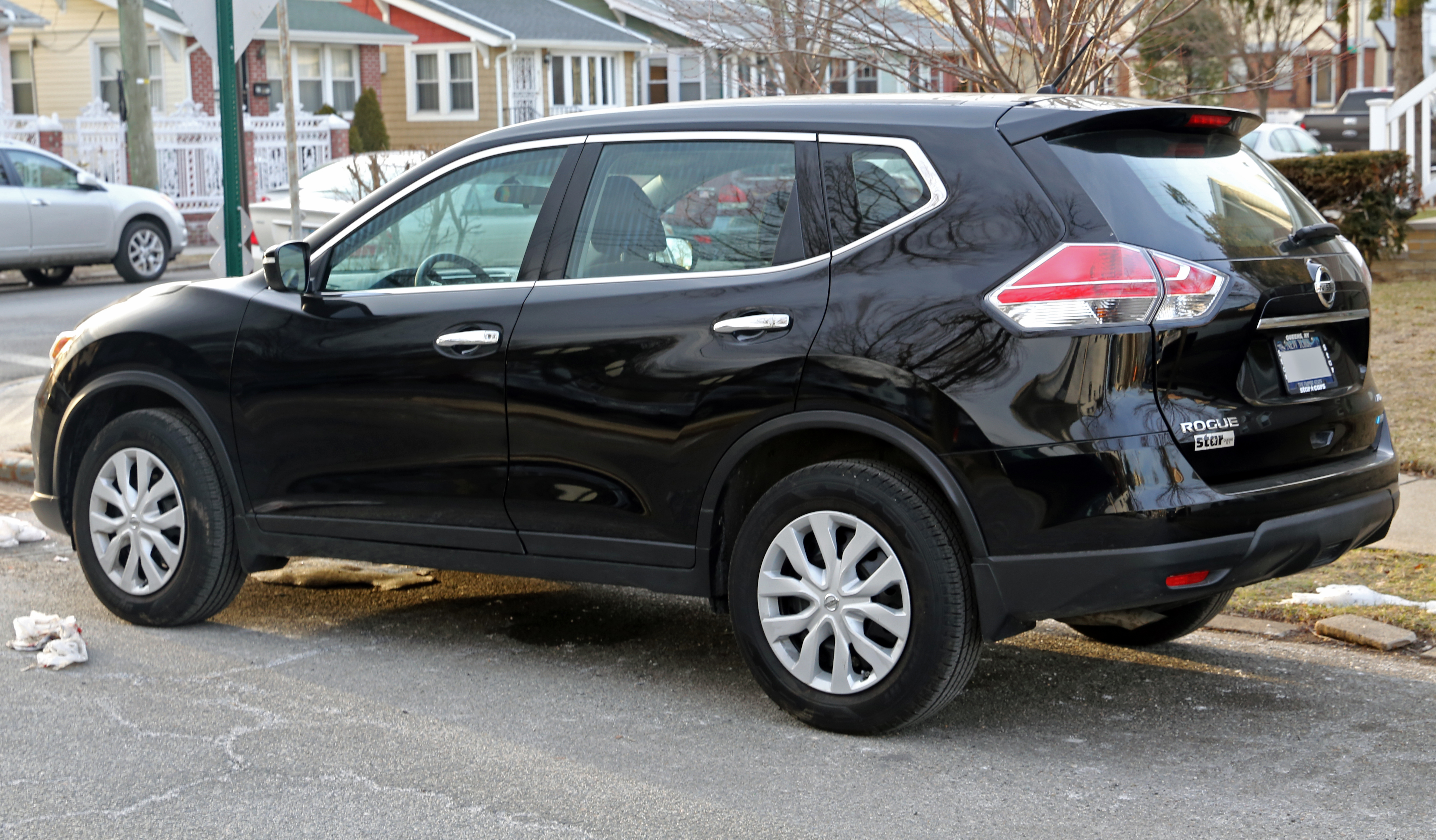 2014 Nissan Rogue S AWD (second generation), built in Smyrna, TN.